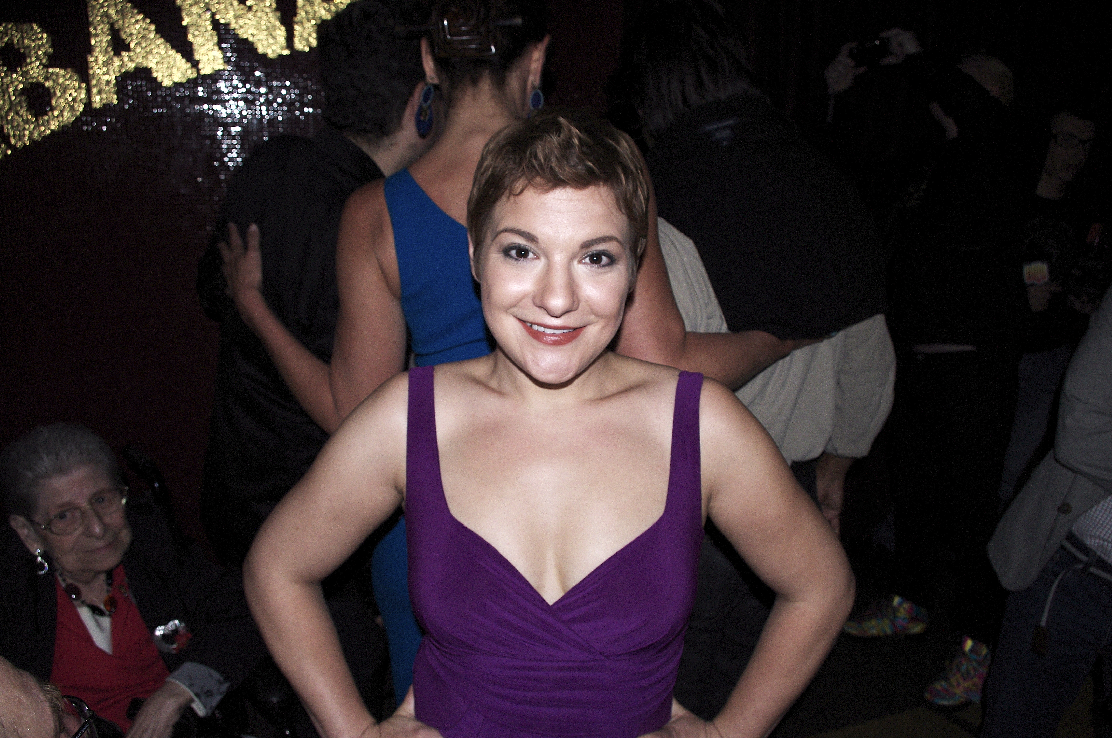 Daisy Eagan at the Copacabana in New York for the launch of Michael Musto's new book, Fork on the Left, Knife in the Back.